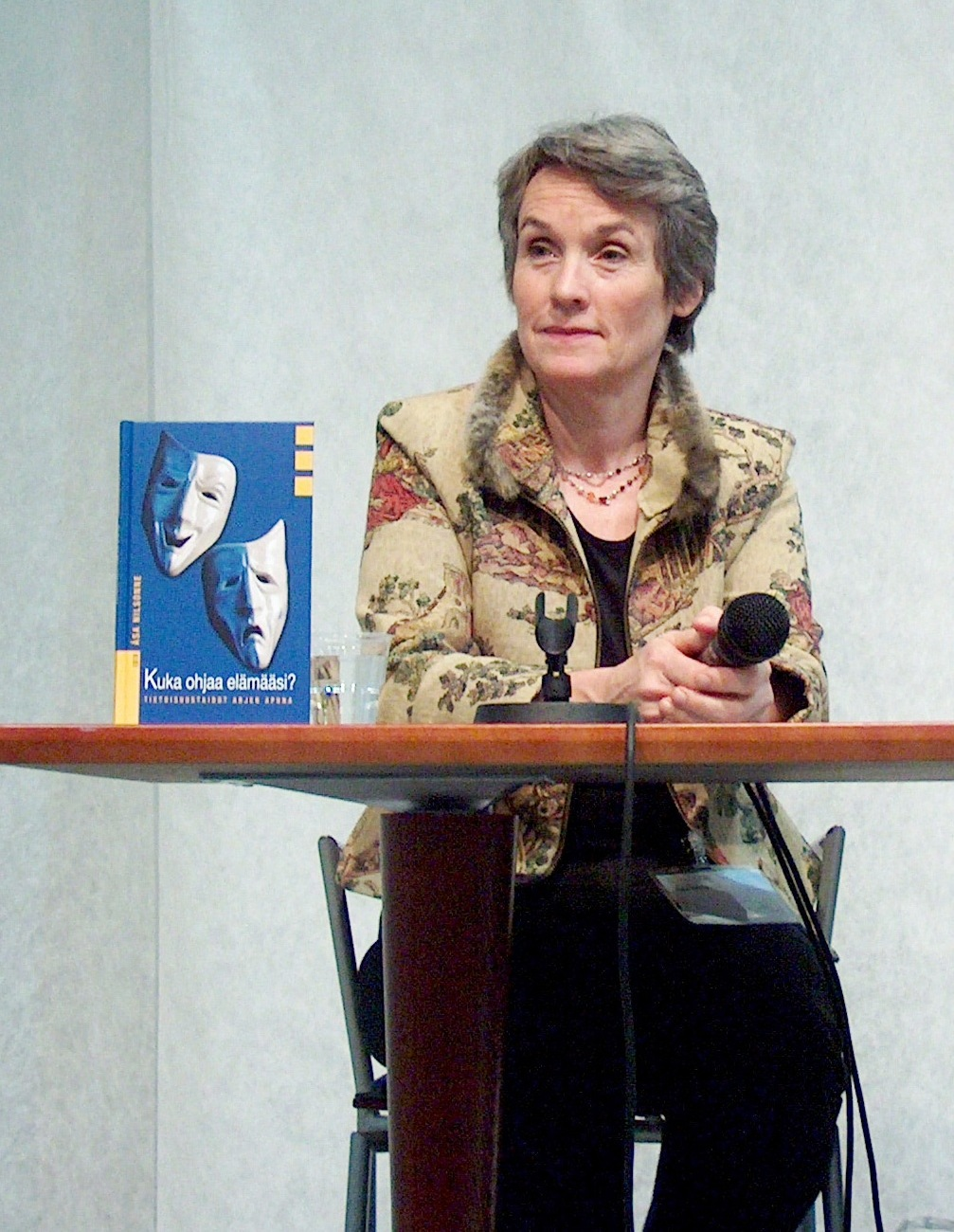 Swedish crime writer Åsa Nilsonne at The Helsinki Book Fair 2005